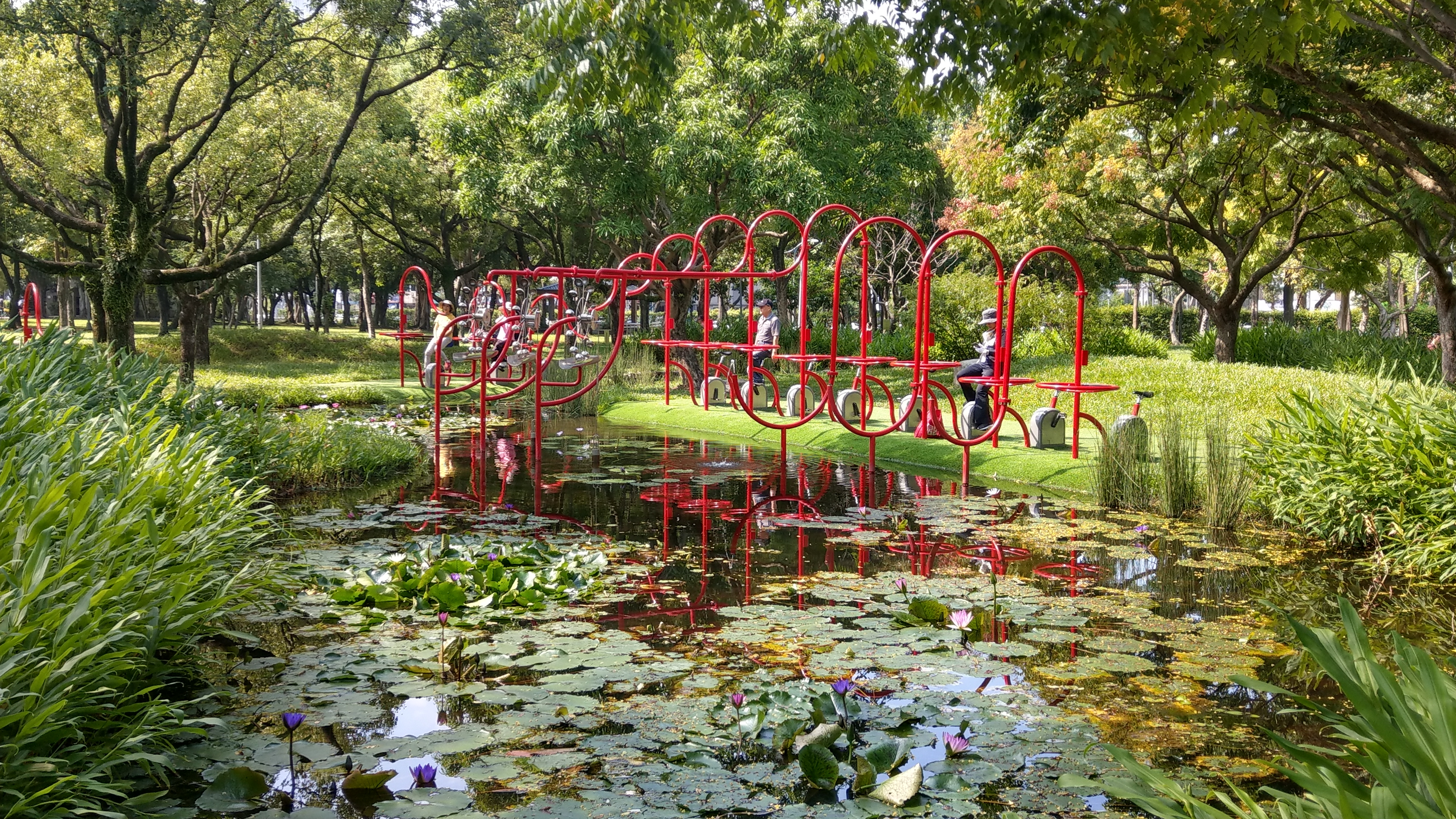 Ecological water and "Taipei ECO GYM" in Daan Park, Taipei City, Taiwan, which was built in 2018.